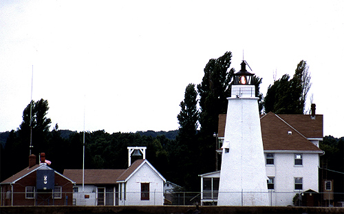 Cove Point Lighthouse, Chesapeake Bay, MD